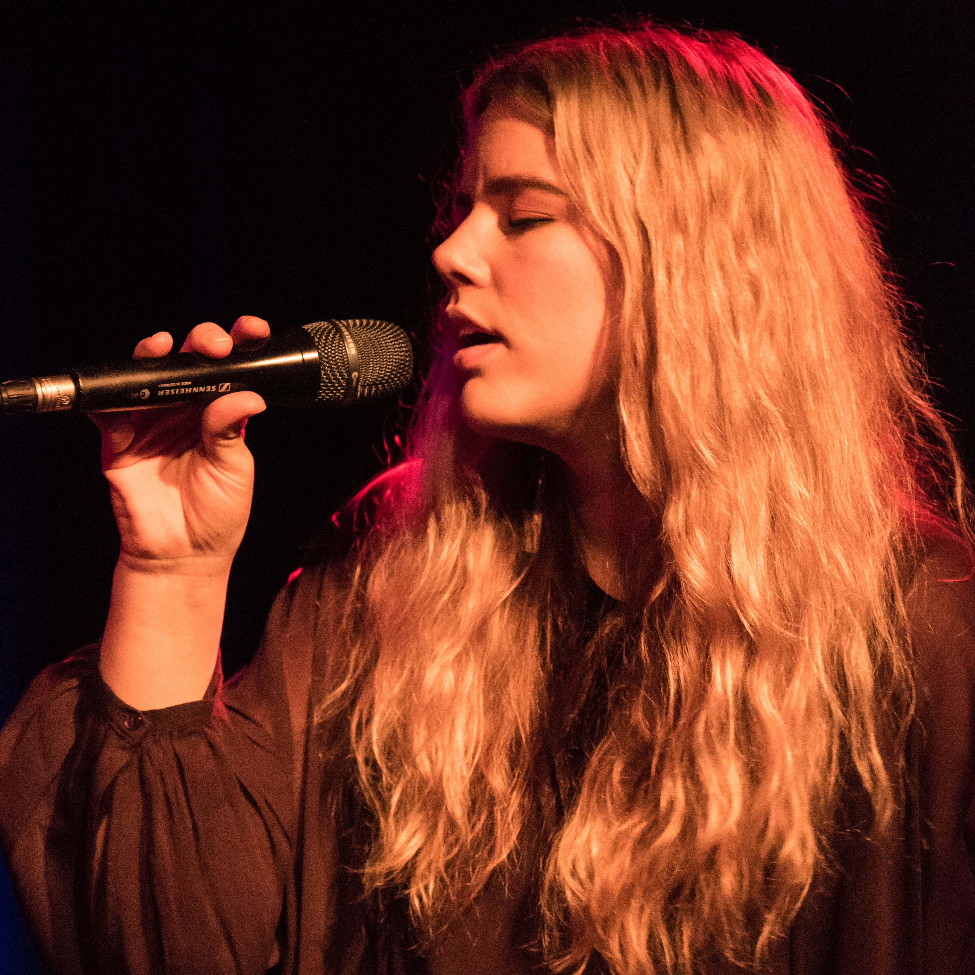 Norwegian jazz musician Natalie Sandtorv at the Moers Festival 2016